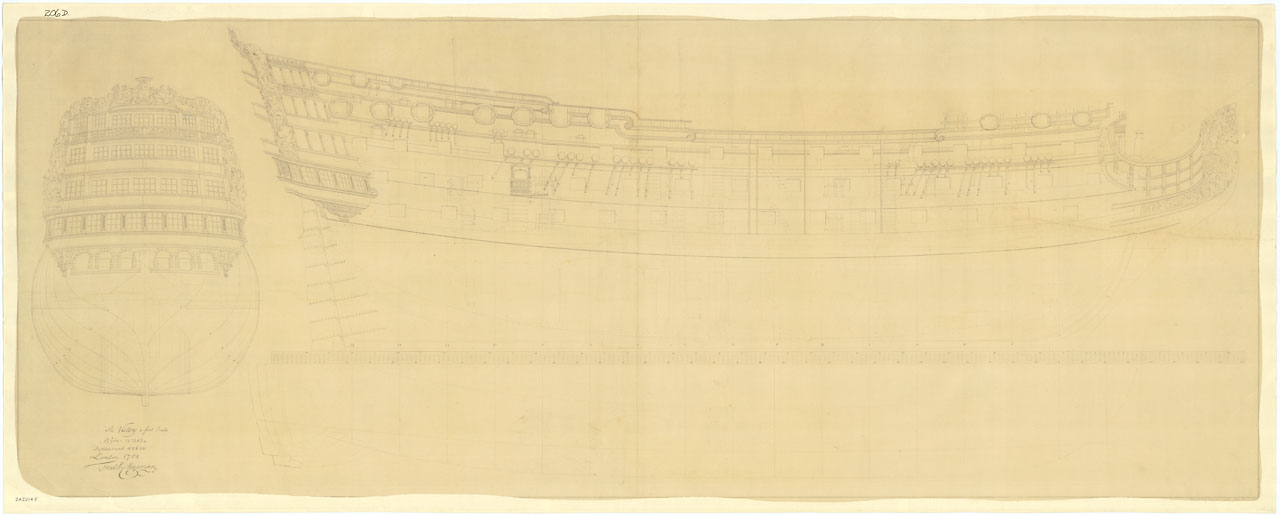 Original caption: "Scale: 1:48. Plan showing the body plan with stern board decoration, sheer lines with decoration detail and figurehead, and longitudinal half-breadth for 'Victory' (1737), a 100-gun First Rate, three-decker. Chapman's signature on the plan implies it was copied by him from the Admiralty during his visit to London in 1754. Signed by Fredrik Henrik Af Chapman [Swedish Naval Architect and Shipwright, 1721-1808]."